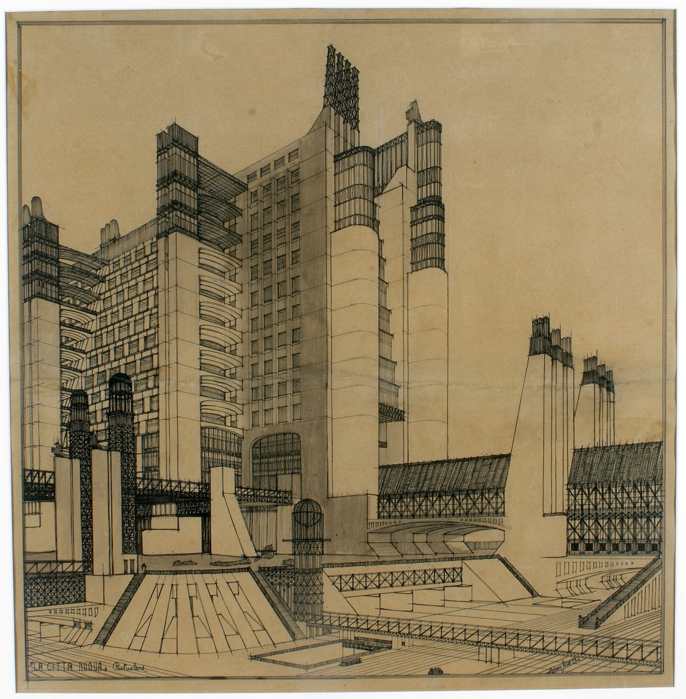 Part of the series La Città Nuova, 1914.